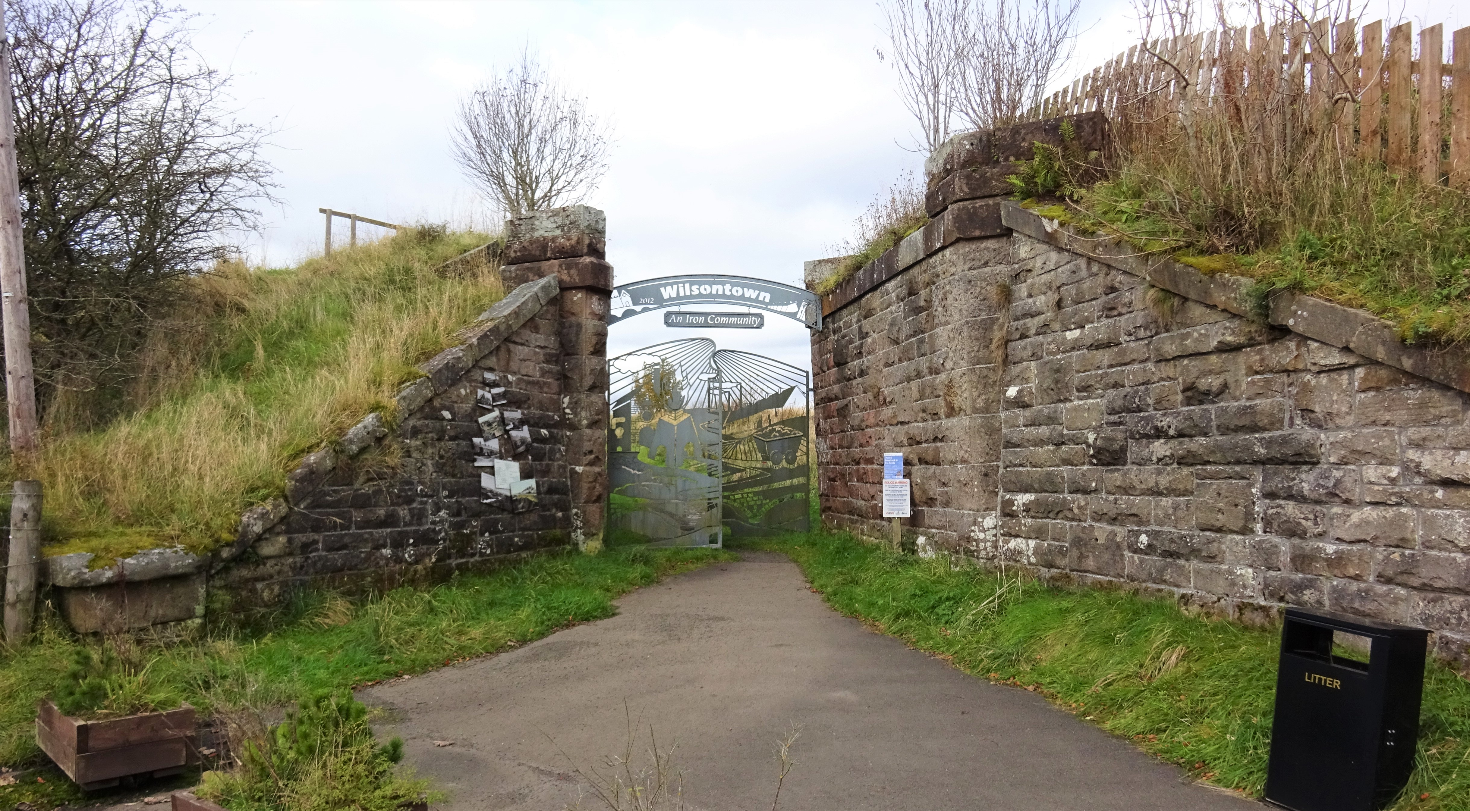 Old Railway bridge abutments and ornate commemorative gates at the Wilsontown Ironworks Site, Lanarkshire.